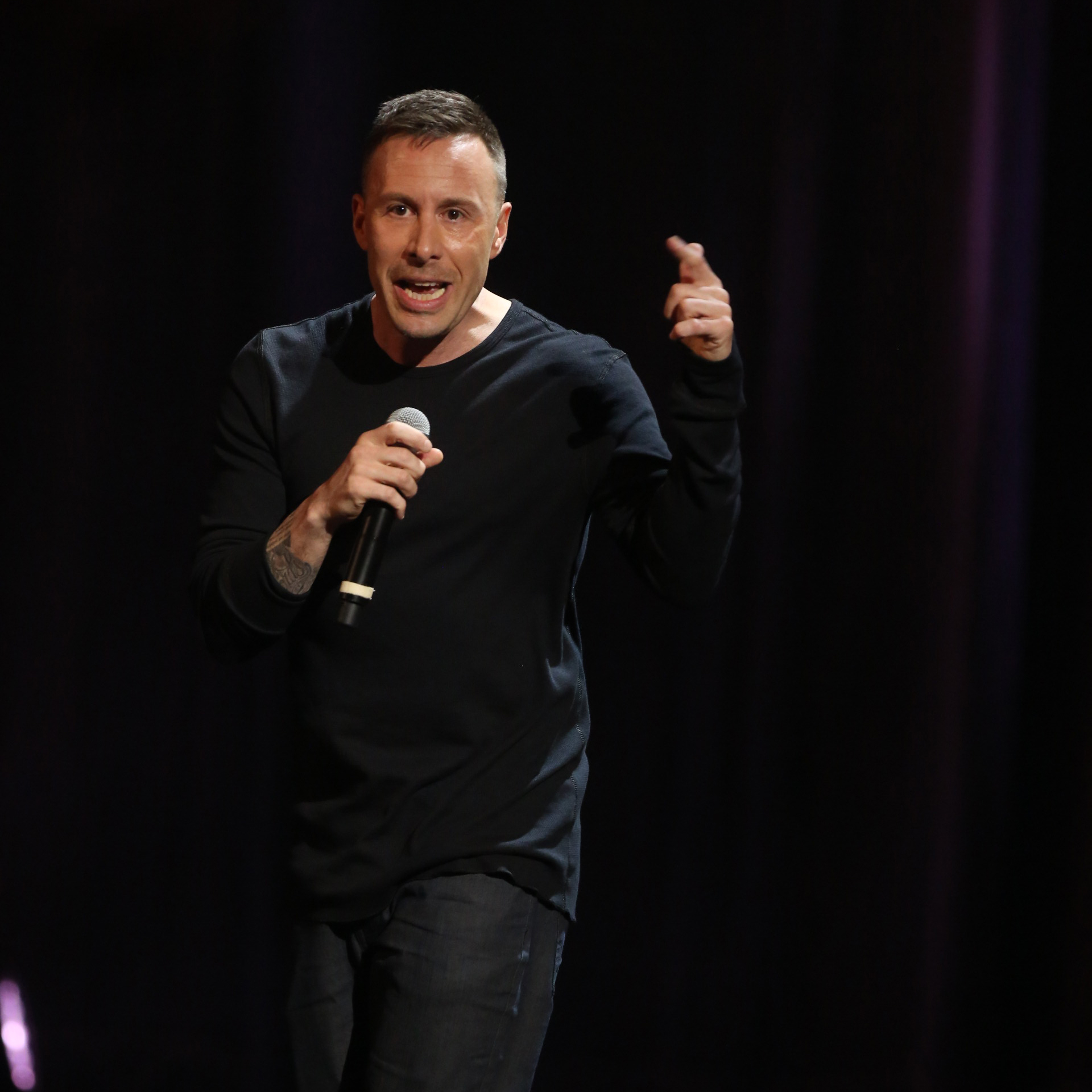 Dov Davidoff performing live comedy